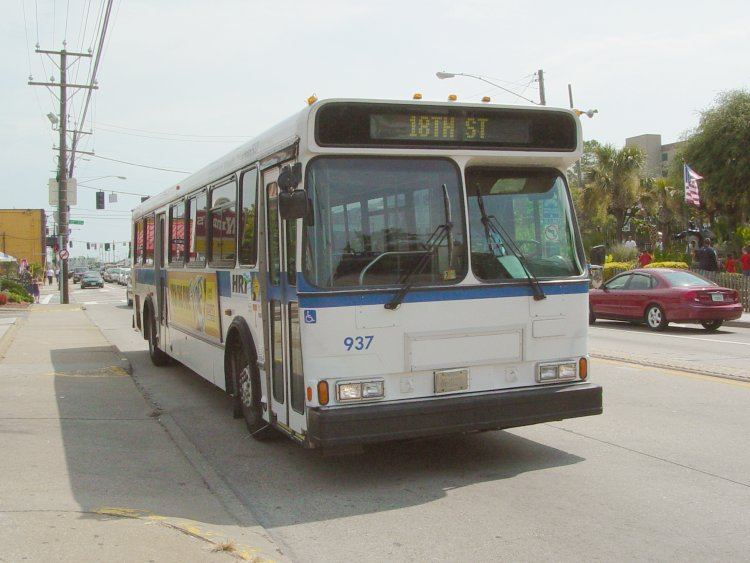 Bus #937, an Orion V, in the fleet of Hampton Roads Transit. Photo taken on August 12, 2004 by Ben Schumin.